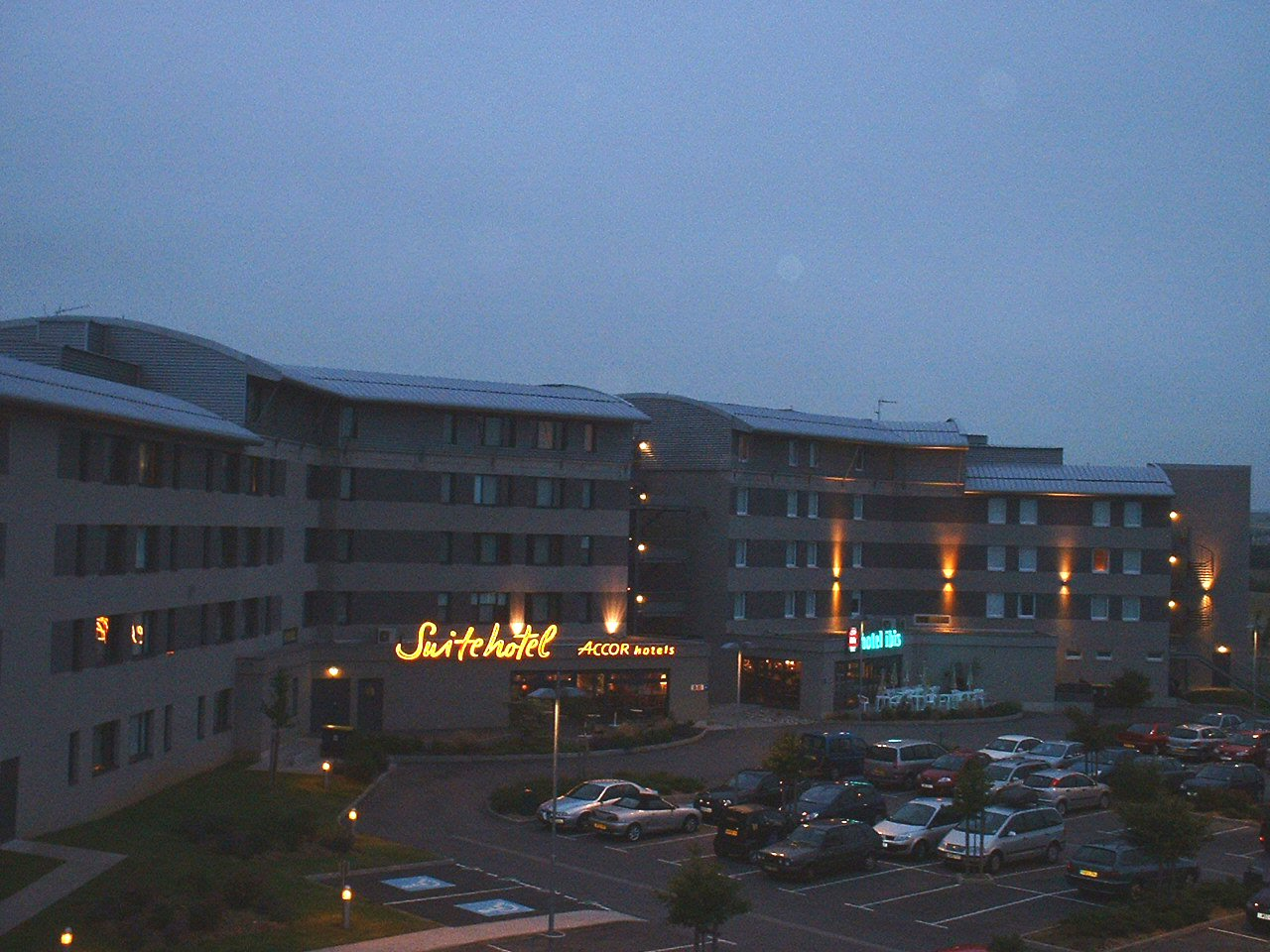 Licensing